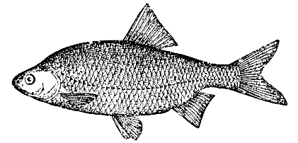 Roach